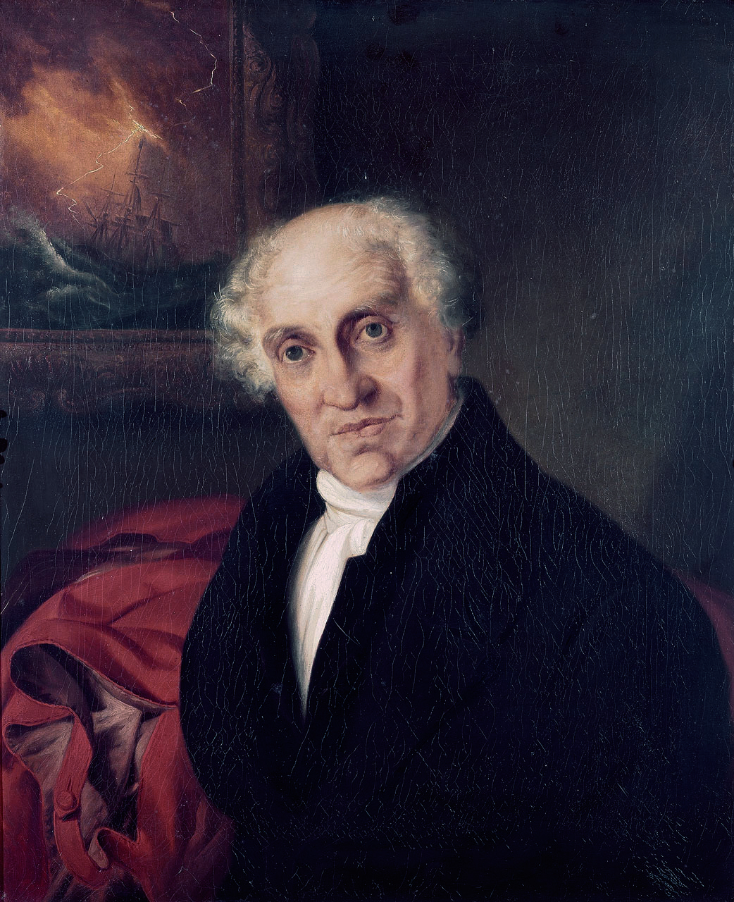 The Reverend Doctor Alexander Scott, 1768-1840. Painted in 1840, possibly a posthumous portrait.